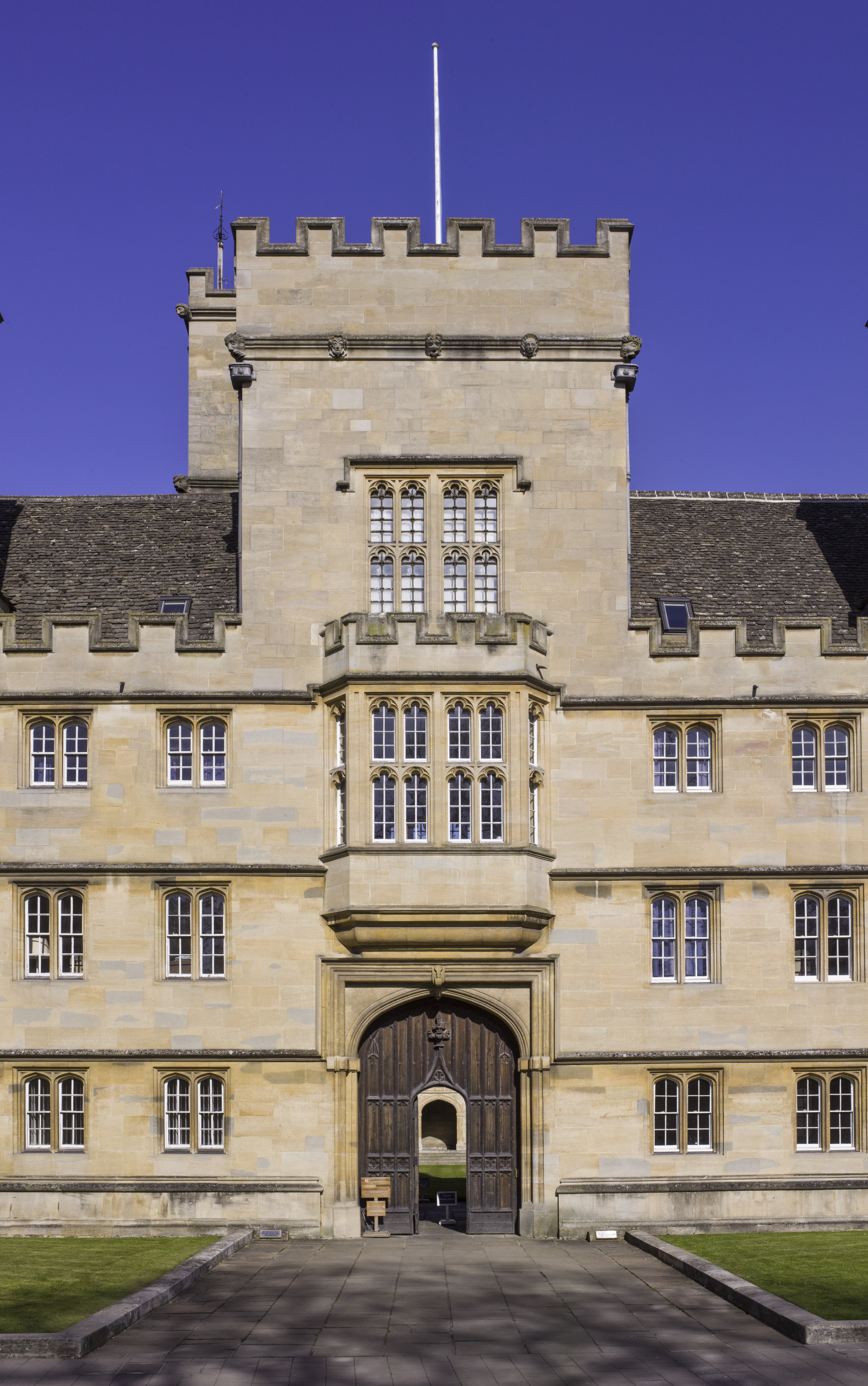 Wadham College (Oxford University) founded in 1610. View of front.